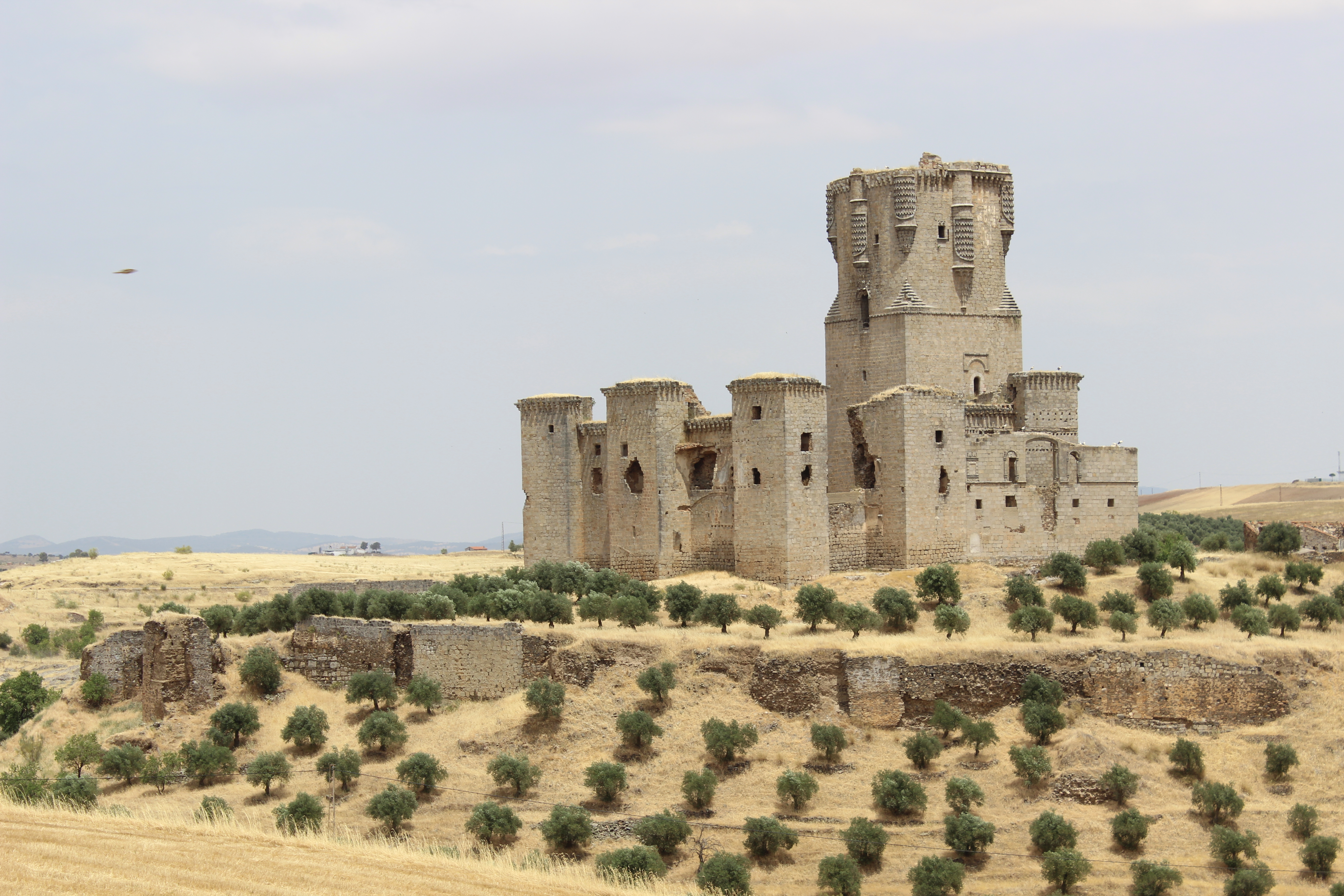 Belalcázar castle, Cordoba, Spain